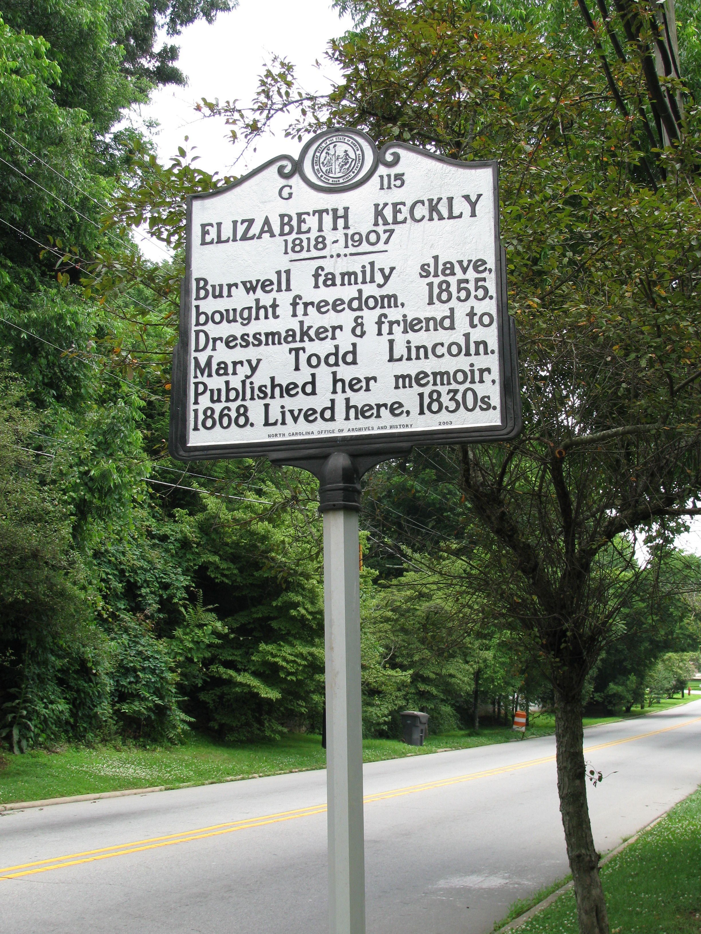 Burwell family slave. Bought freedom in 1855. Dressmaker and friend to Mary Todd Lincoln. Published her memoir 1868. Lived here 1830s.